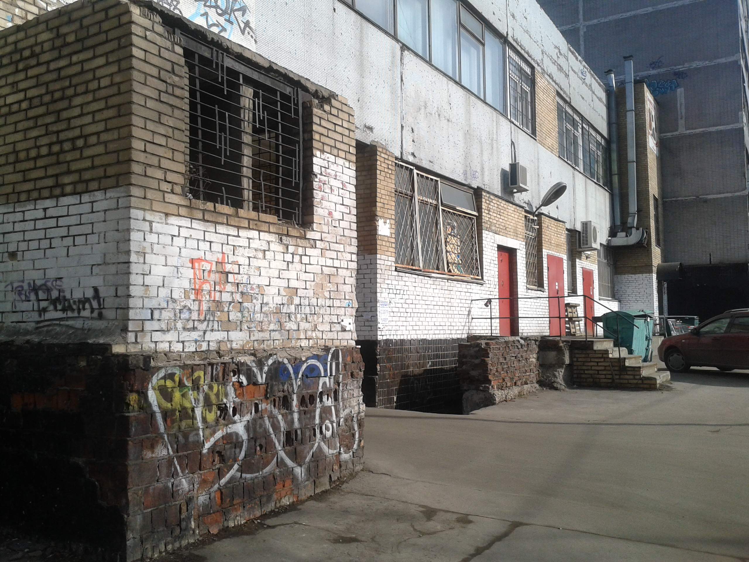 Arch on Korneychuck street, Moscow, Russia